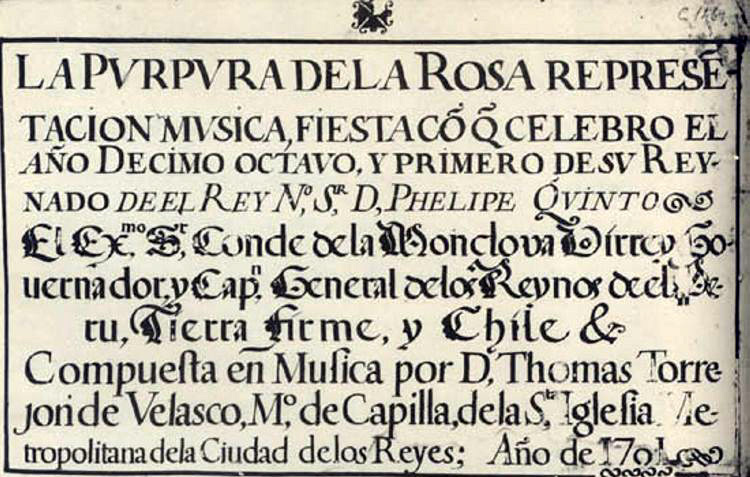 Frontispiece of the original score for La púrpura de la rosa (1701) by Tomás de Torrejón y Velasco (1644-1728).